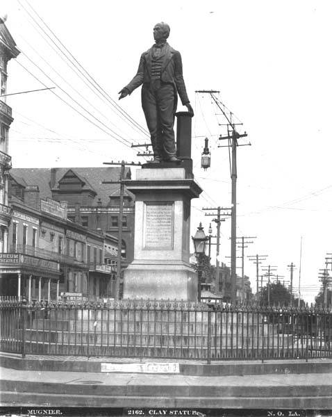 New Orleans. The Henry Clay staue on Canal Street at St. Charles before the base was cut back for the electric streetcars in the 1890s.